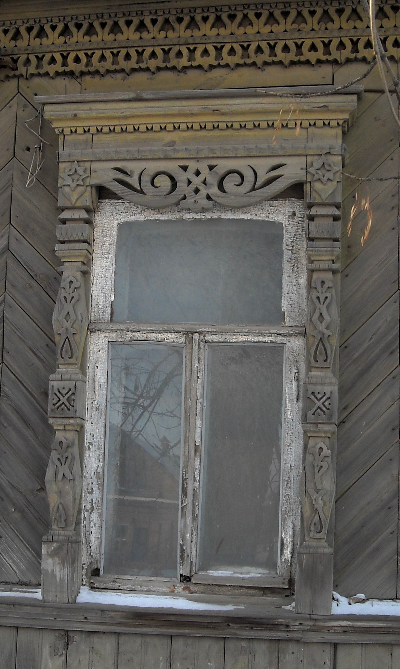 Carved wooden window. Russia, Oryol, 1 Kurskaya street, No. 16